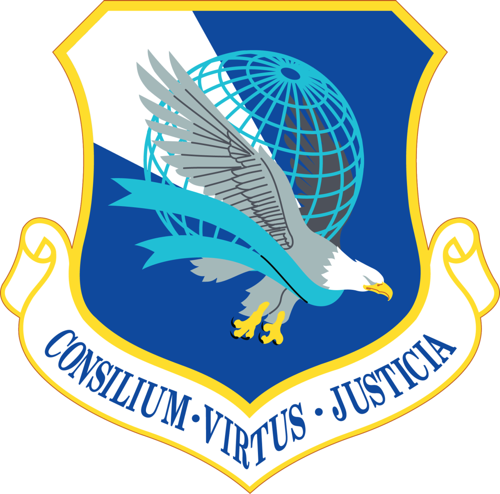 Emblem of the Air Force Legal Operations Agency, a Field Operating Agency of the United States Air Force